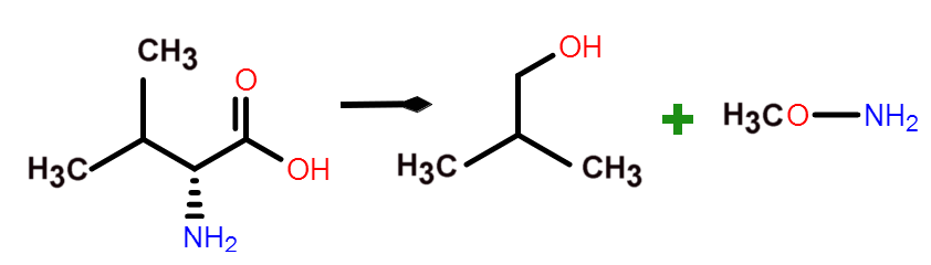 Isobutanol synthesis from valine